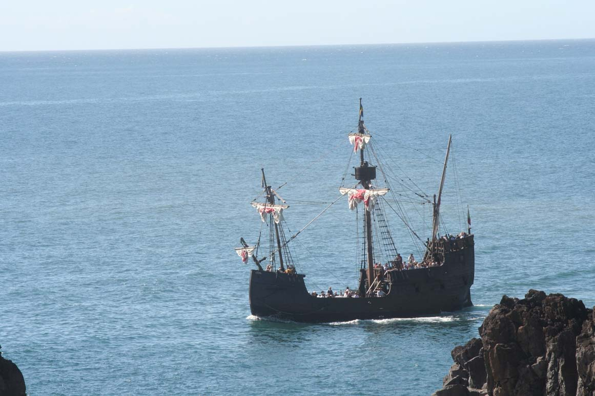 A motor-powered replica of the Santa María de la Inmaculada Concepción seen off the south coast of Madeira